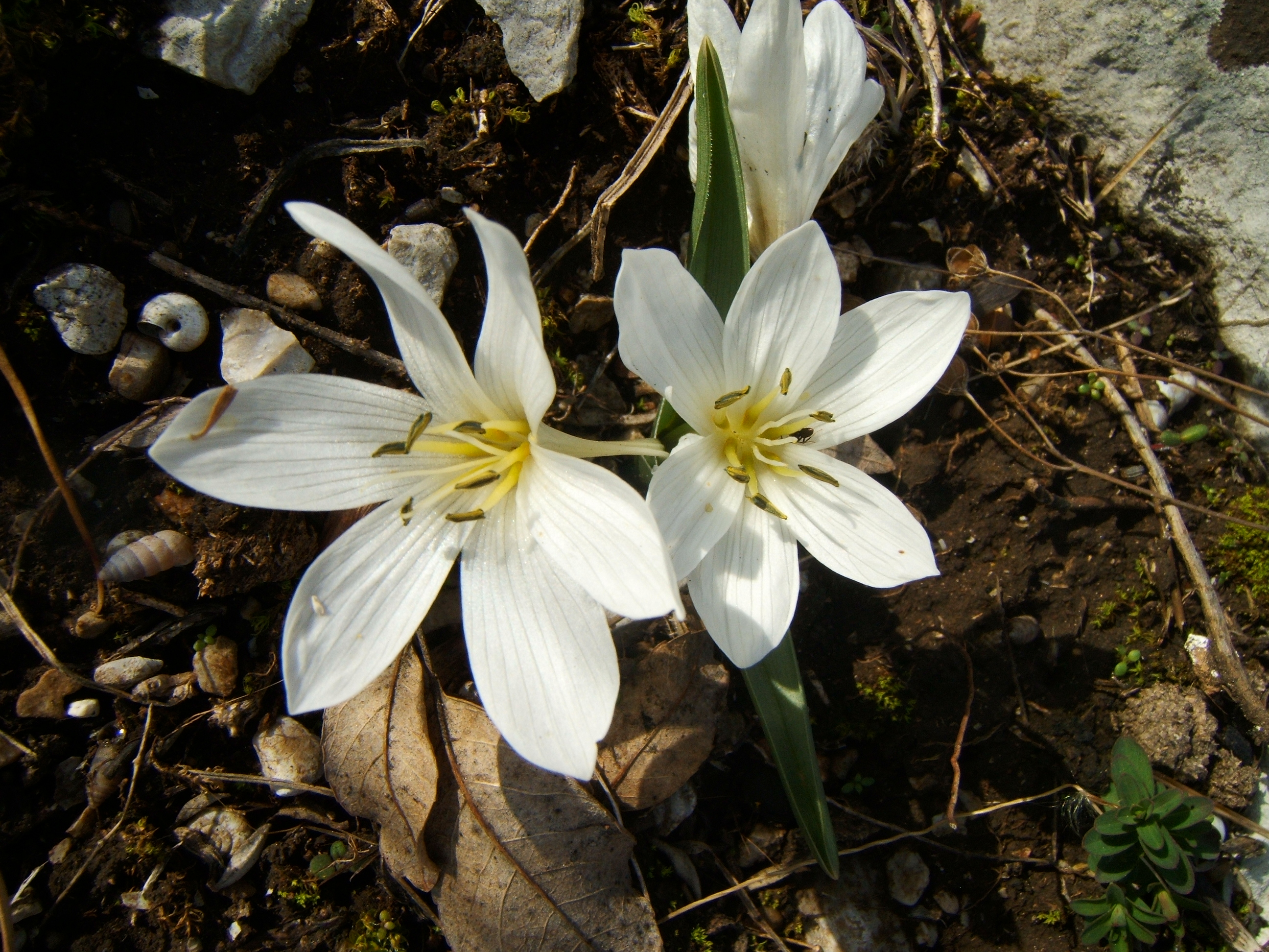 Colchicum hungaricum